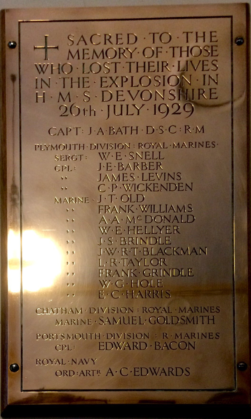 Memorial plaque located at Stonehouse Barracks. The memorial is in memory of those Royal Marines and one Naval rank killed in an explosion in HMS Devonshire 29 July 1929. The eighteen dead include Captain J A Bath DSC RM.